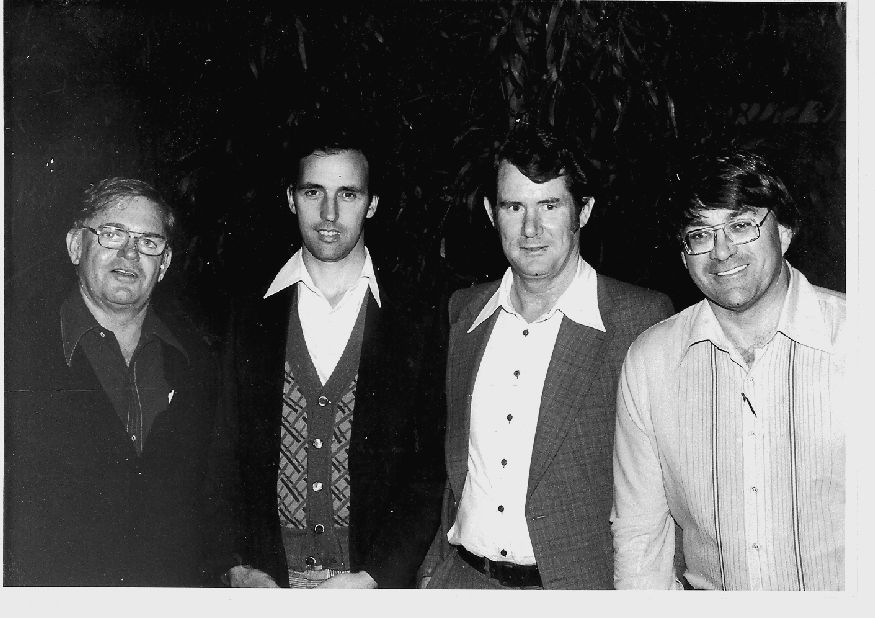 The photograph shows four senior members of the Australian Labor Party at the time of the Fraser federal government. (From left) Colin Jamieson, leader of the WA state party in opposition; Paul Keating then federal shadow minister for the north-west and for minerals and energy; federal senator Peter Walsh and federal MHR Stewart West. Made by Brian Jenkins. Taken at Wickham, Western Australia, on the evening of 5 September 1978 at a BBQ in Pam Buchanan's backyard. Bjenks (talk) 06:16, 13 October 2008 (UTC)